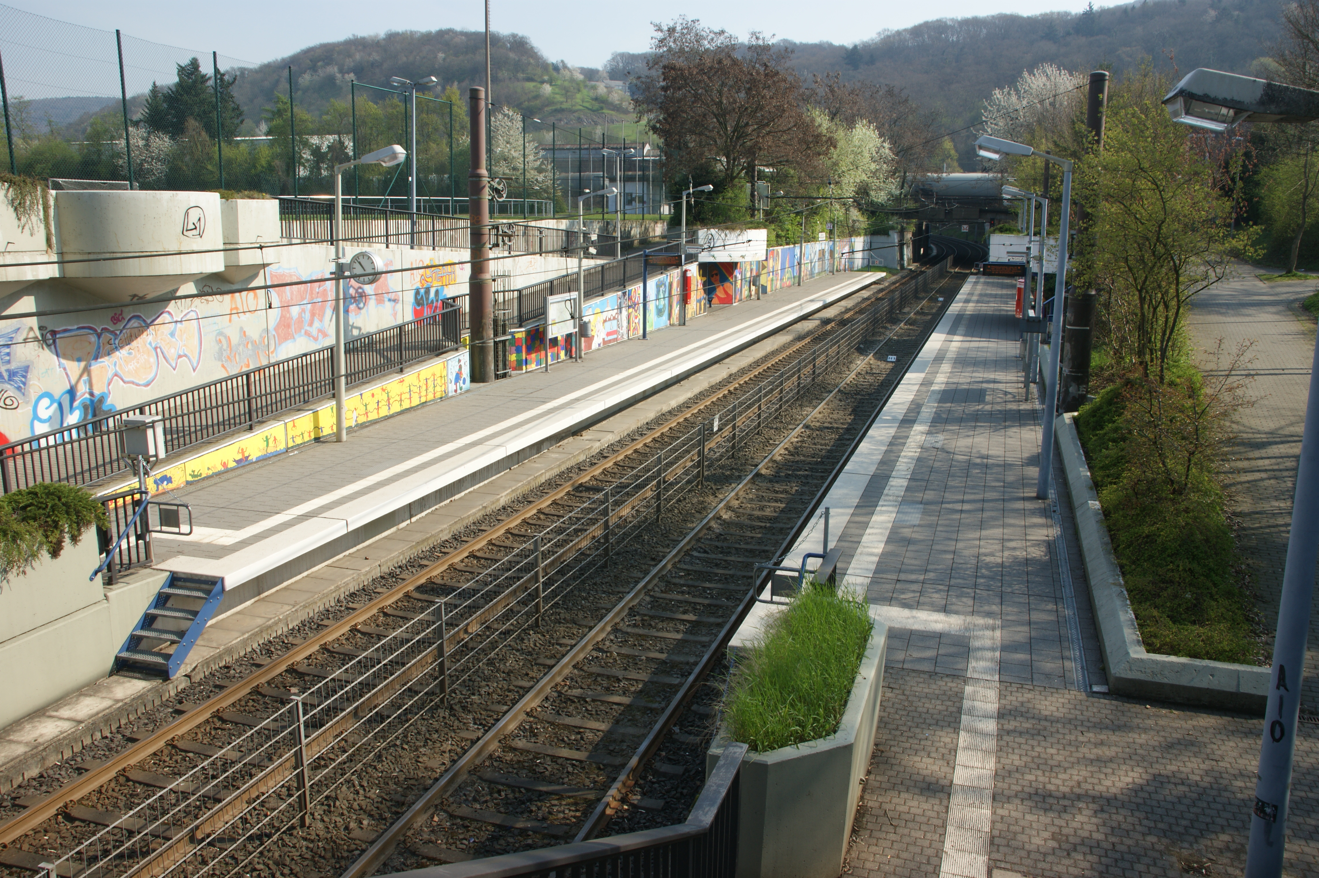 Stop Longenburg – CJD Königswinter of the urban railway Siebengebirgsbahn in Königswinter.